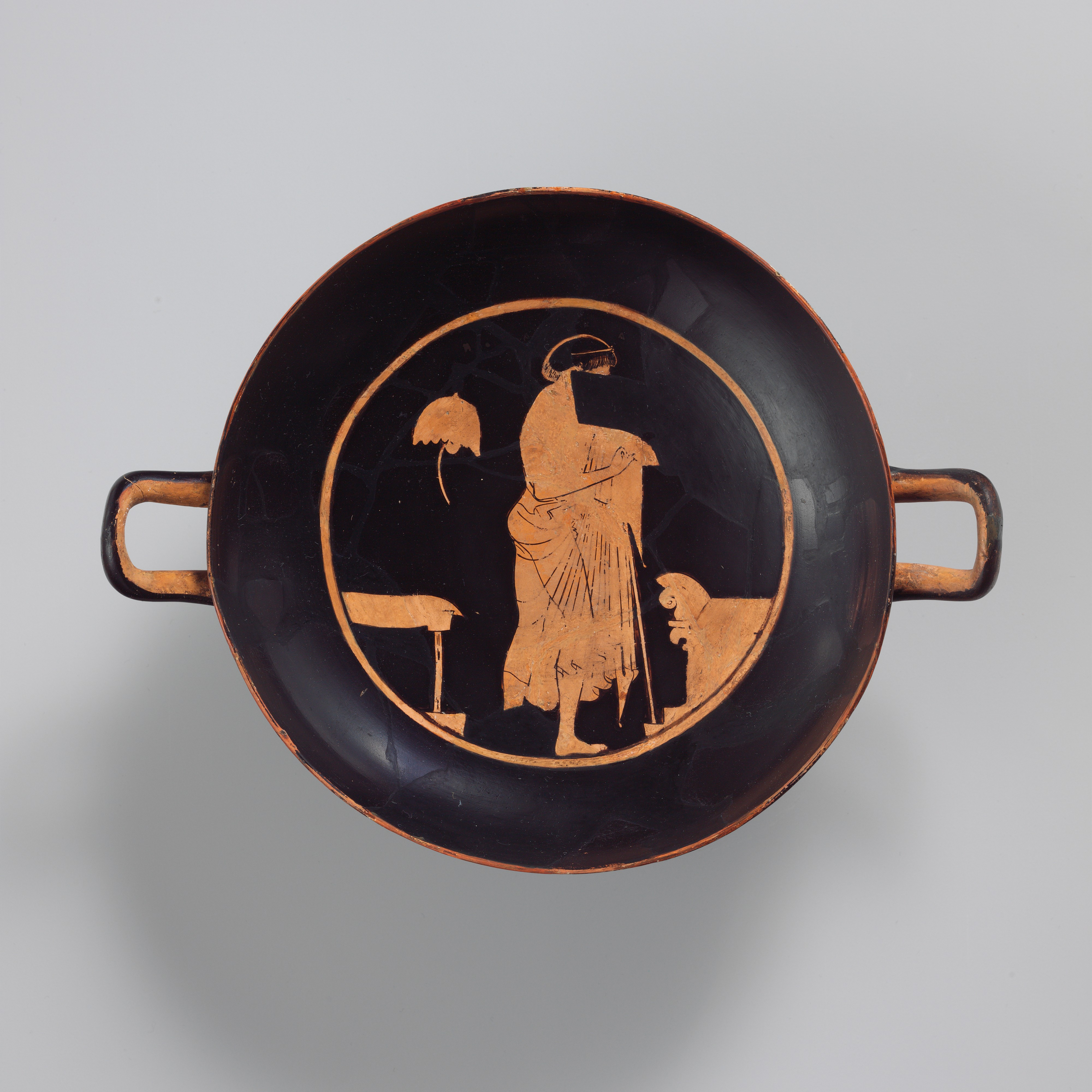 Greek, Attic; Kylix; Vases; Youth at an altar The youth is shown in an athletic context, indicated by the sponge suspended in the background. J.D. Beazley has attributed the composition here to the influence of the contemporary vase-painter Douris.